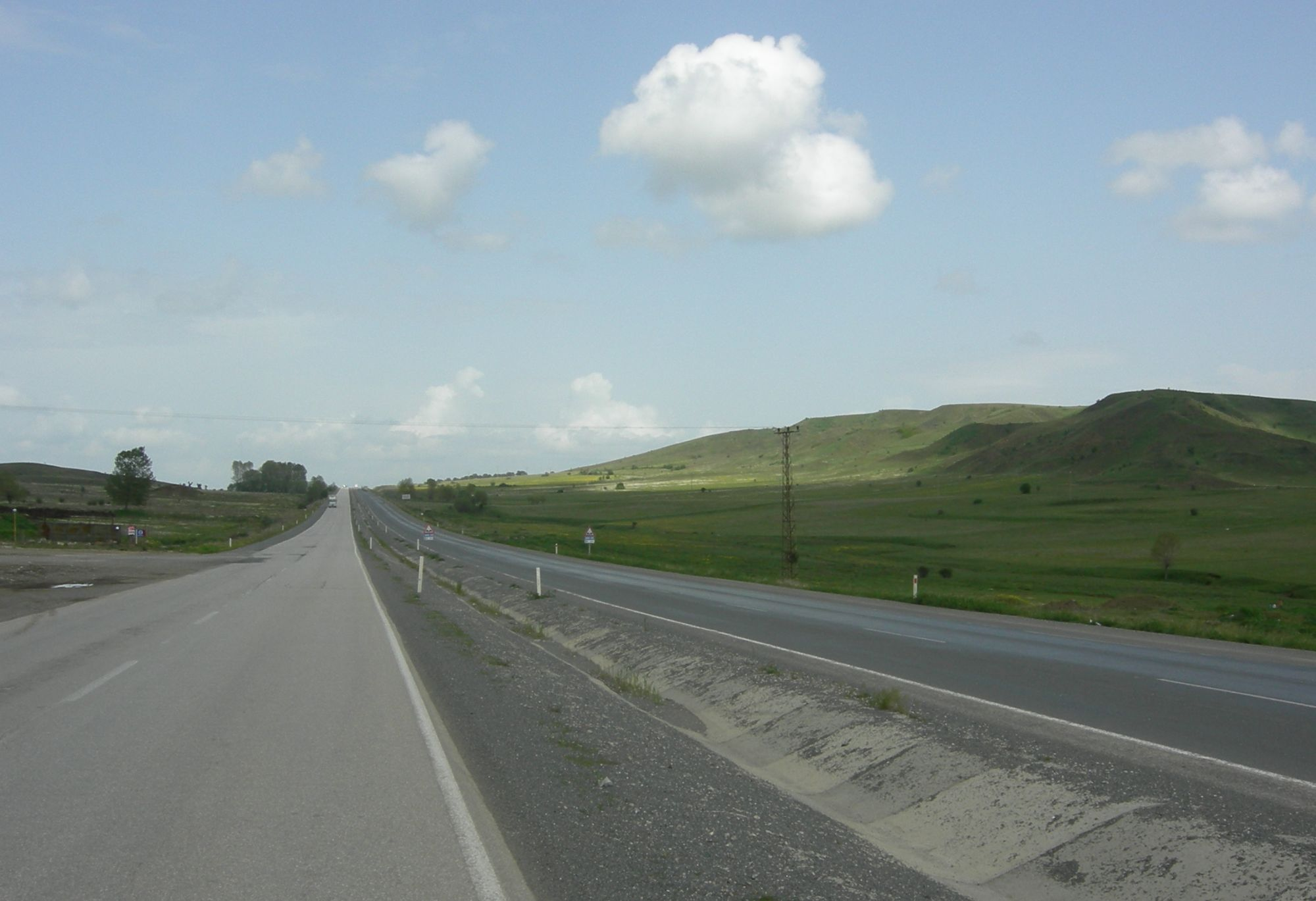 E80 European highway = AH1 Asian highway = Turkish D100, east of Gerede, Turkey